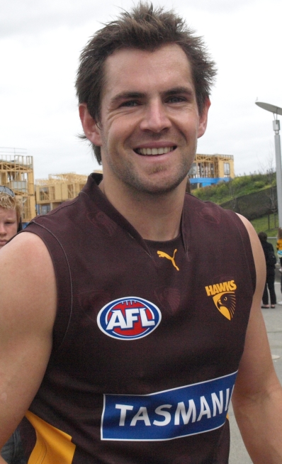 Luke Hodge after Hawthorn training on Tuesday, 9th September 2008.